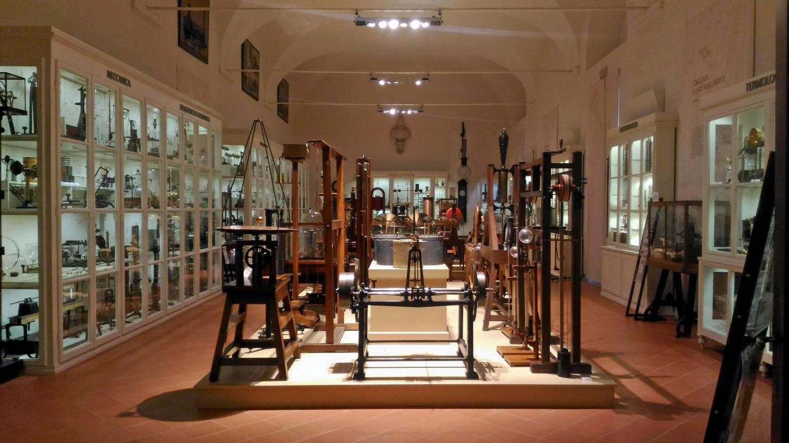 Aspect of Fondazione Scienza e Tecnica's Museum hall from after the inauguration of 2007